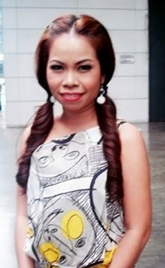 Photo of Tukky 3 cha or Sudarat Butrprom at Workpoint Studio on May 18, 2009.